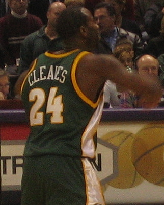 Sonics passing the ball.